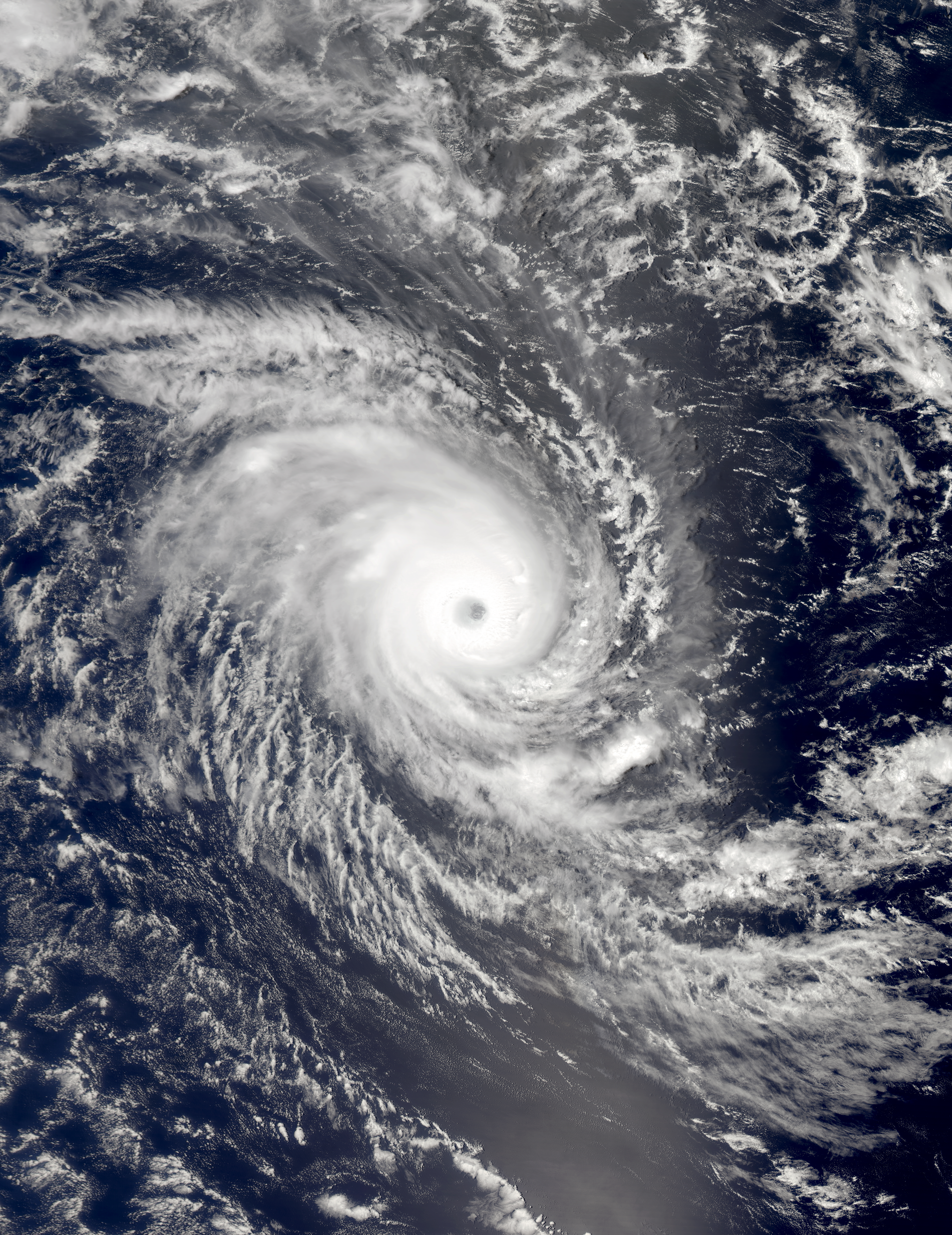 Cyclone Hondo was a powerful Category 4 storm when the Moderate Resolution Imaging Spectroradiometer (MODIS) on NASA’s Aqua satellite captured this photo-like image on the afternoon of February 7, 2008. The storm’s power is evident in its symmetric shape and well-defined eye. When MODIS took the image at 7:55 UTC, Hondo had winds of 220 kilometers per hour (140 miles per hour or 120 knots) with gusts to 270 km/hr (170 mph or 145 knots), said the Joint Typhoon Warning Center. The storm was traveling southeast across the southern Indian Ocean, far from any populated region.